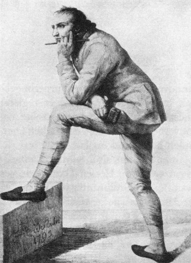 Schadow during a work break.